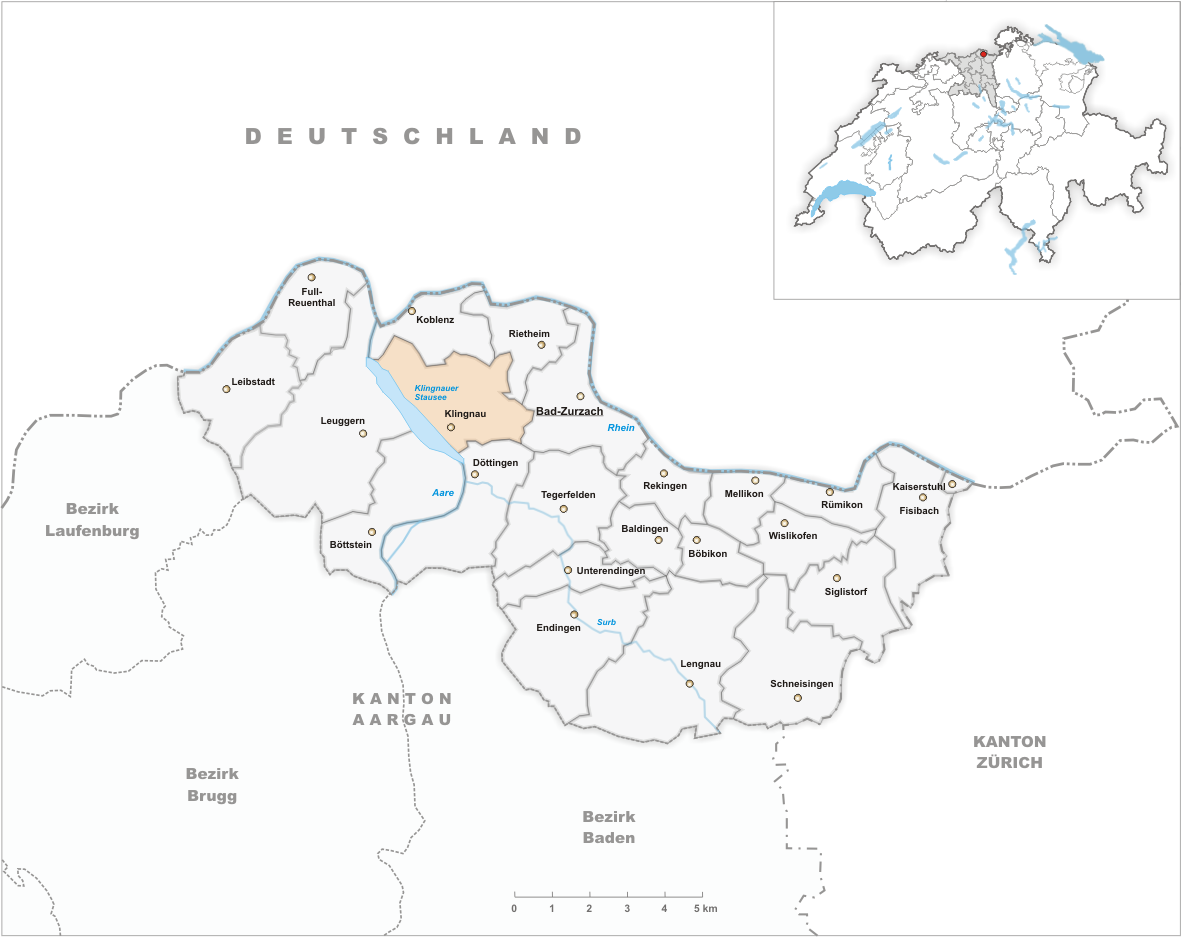 Municipality Klingnau